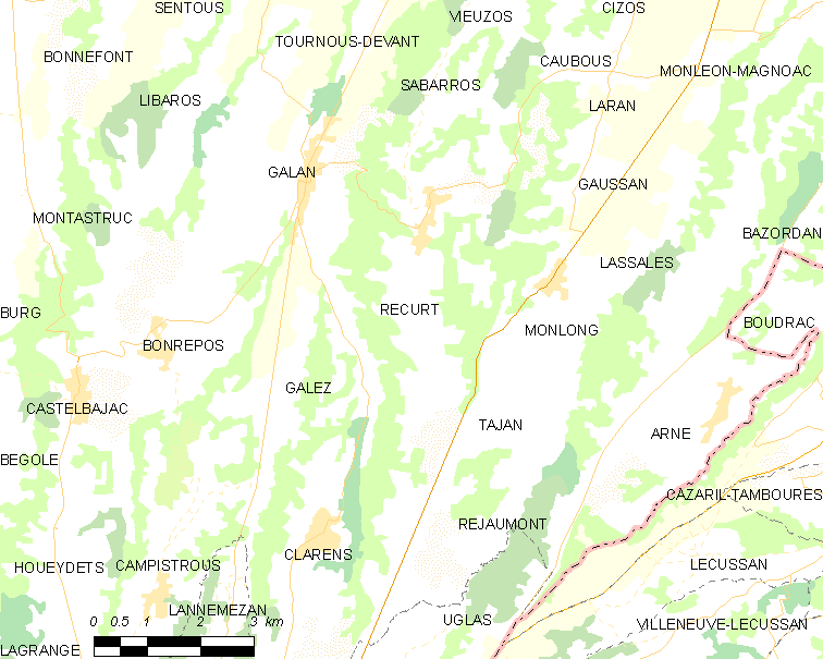 Map of French municipality